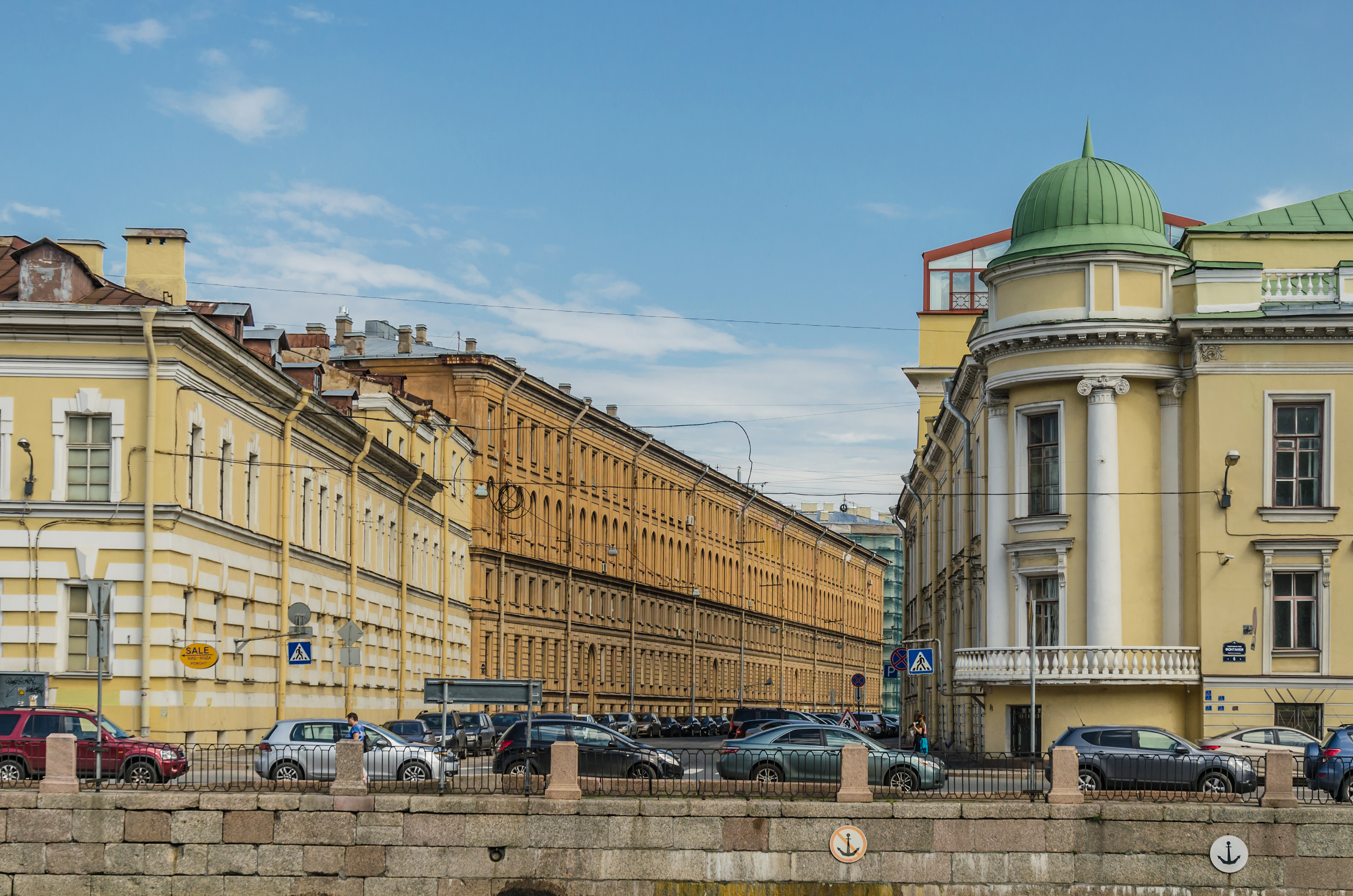 Tchaikovskogo street in Saint Petersburg. View from Fontanka embankment.